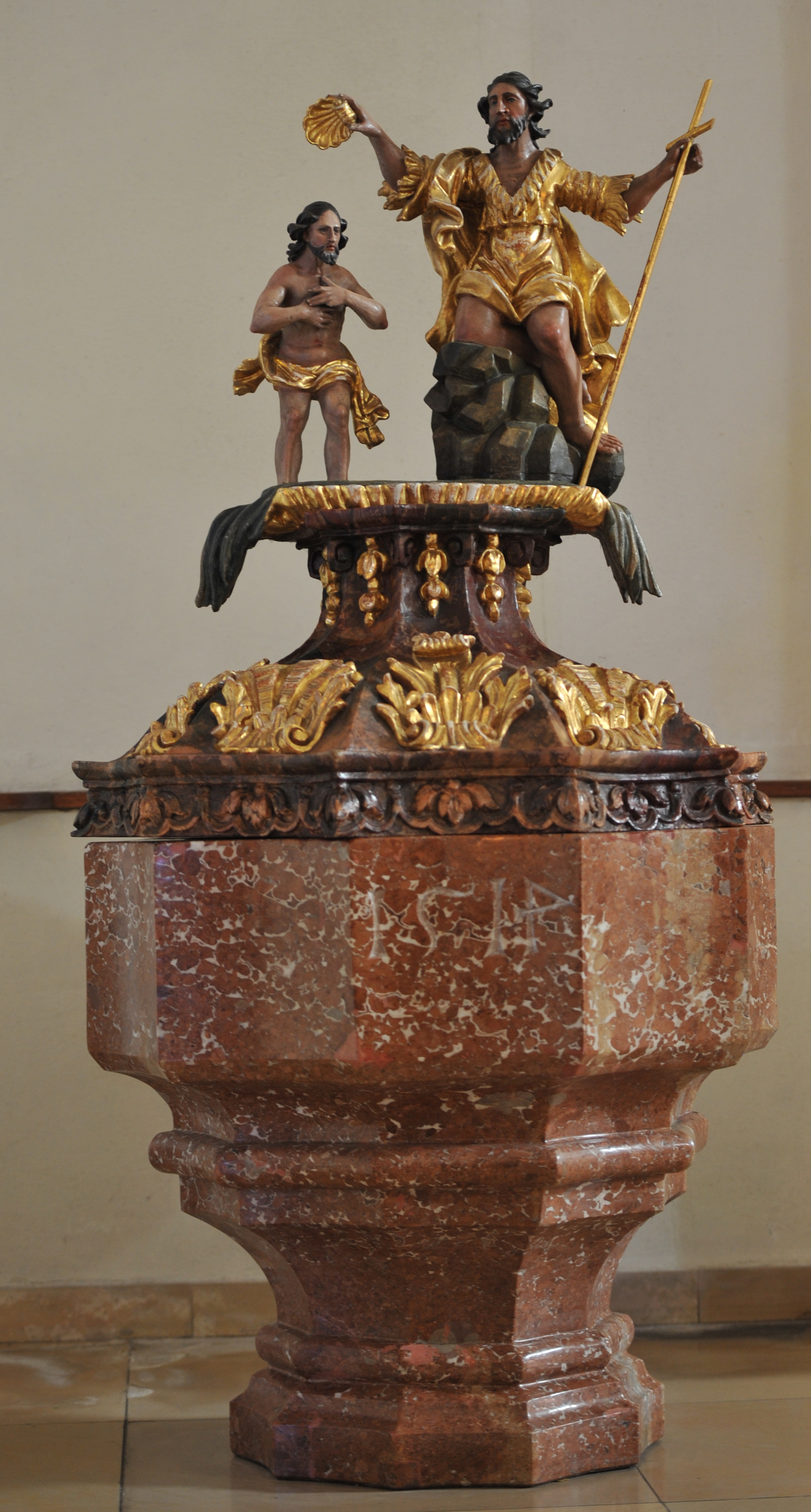 The making of this work was supported by Wikimedia Austria. For other files made with the support of Wikimedia Austria, please see the category Supported by Wikimedia Österreich. Perg Katholische Pfarrkirche Apostel Jakobus der ÄltereTaufstein